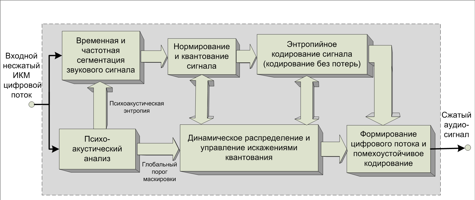 Lossy audio compression coder scheme